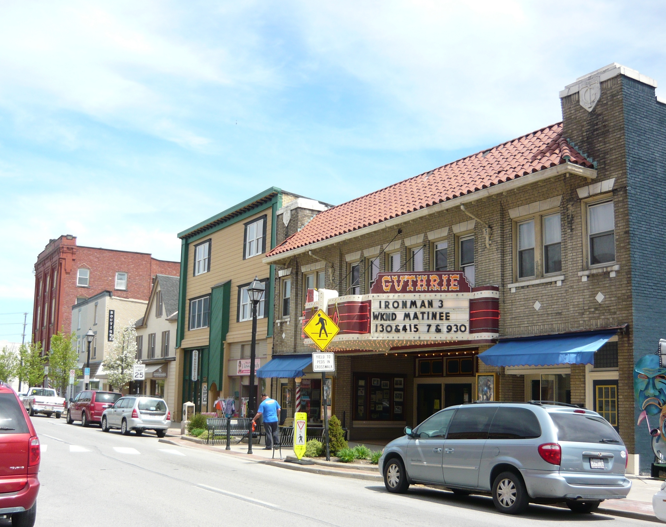 Business district of Grove City, Mercer County, Pennsylvania. Looking northward on South Main Street. The theater is the Guthrie Theater, 232 South Broad Street, built 1927.